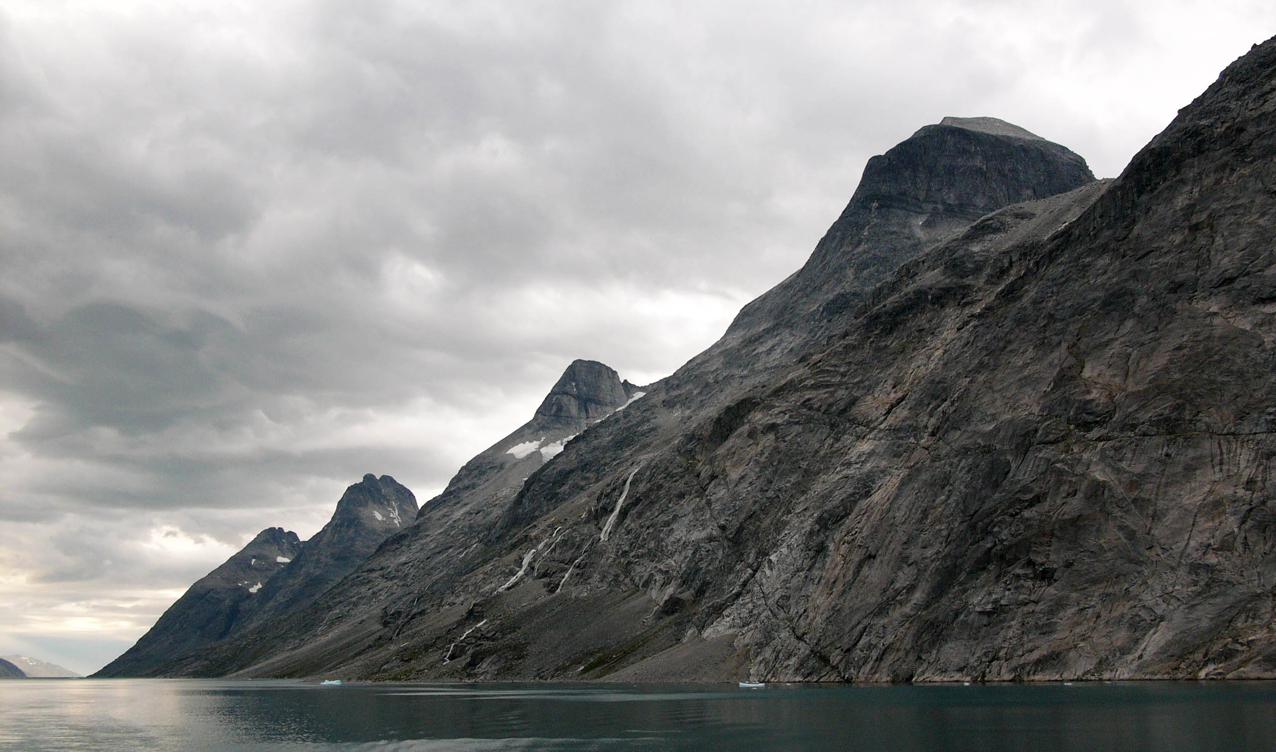 Prins Christians Sund, South Greenland with Nunataker along the coast, formed during the full glaciation of the area.